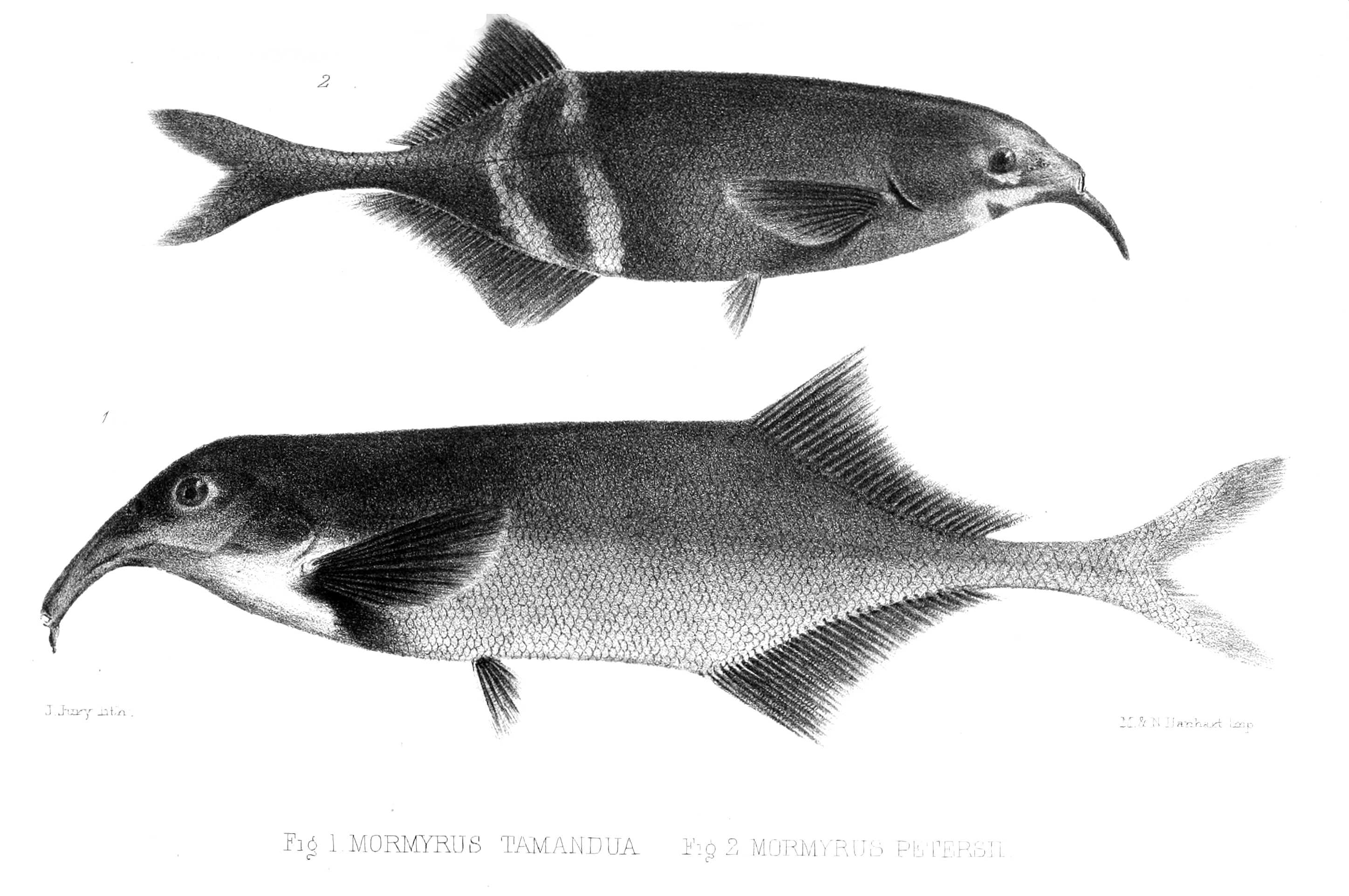 Elephantnose Fish (above); Wormjawed Mormyrid (below)